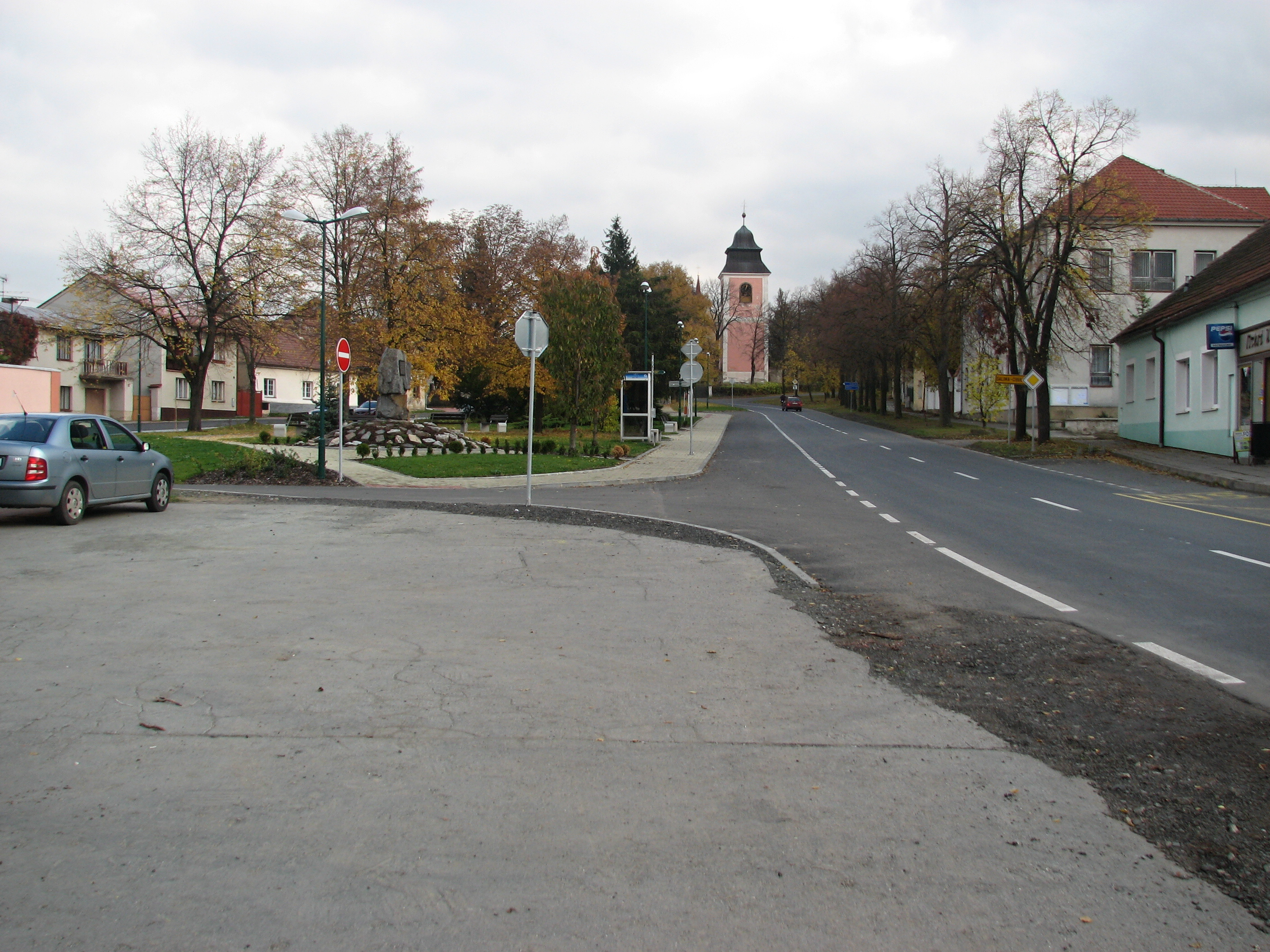 Velim, square